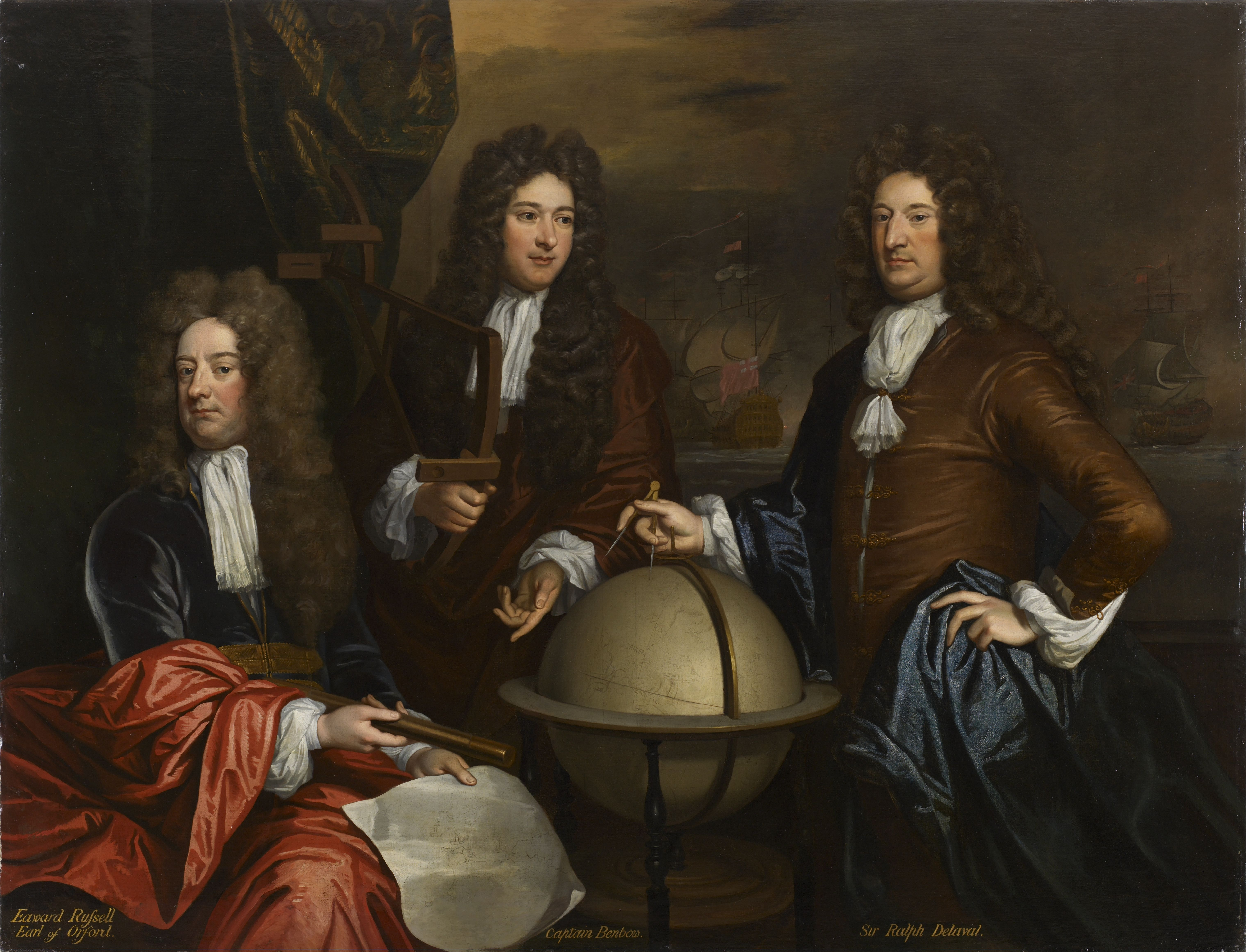 Ist Earl of Orford, Admiral John Benbow and Admiral Sir Ralph Delavall